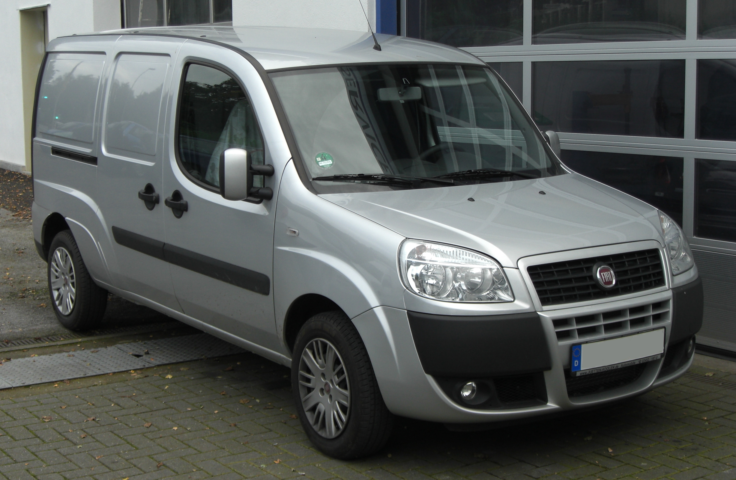 Fiat Doblo facelift.